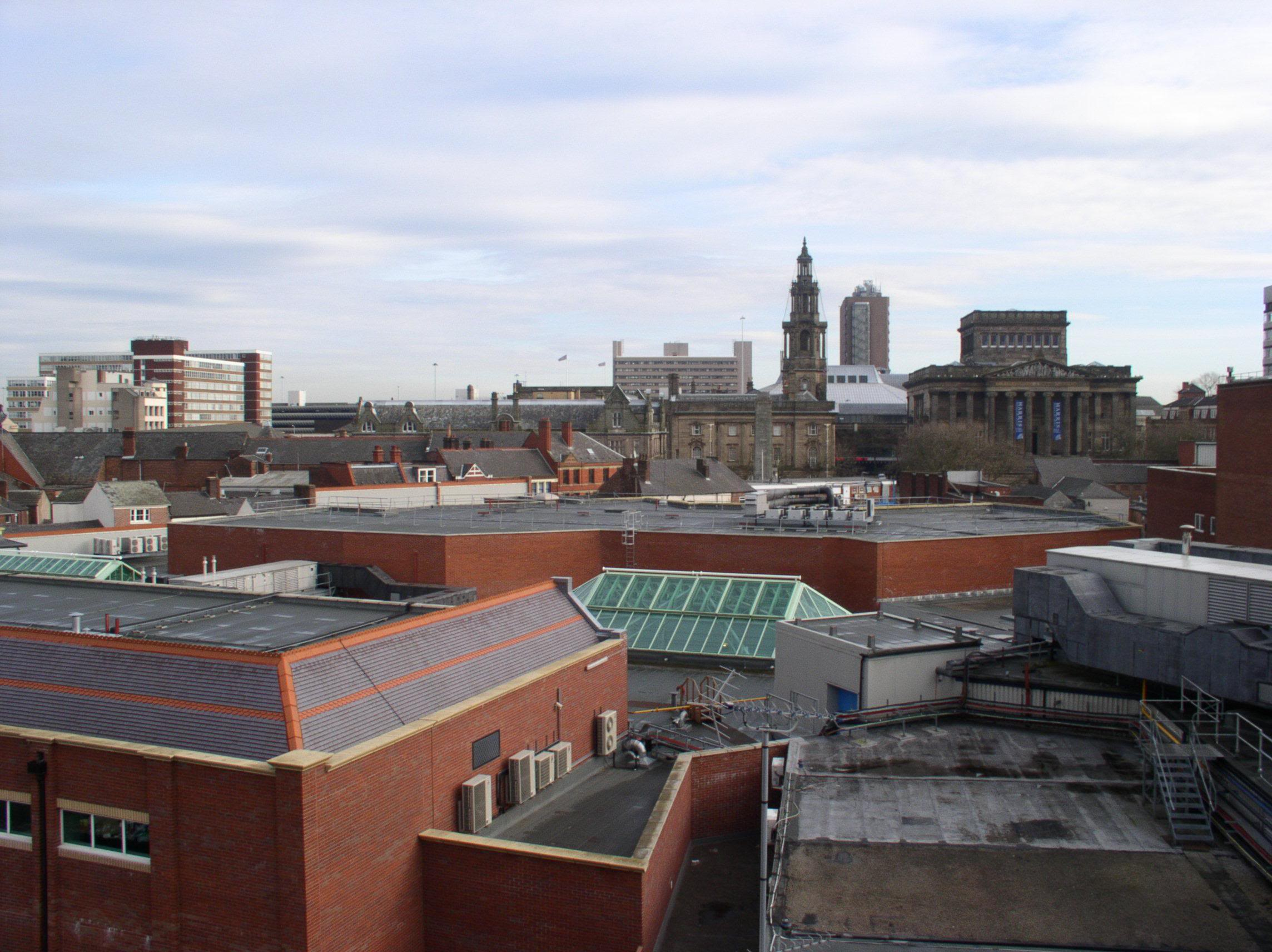 Aerial view of Preston City Centre